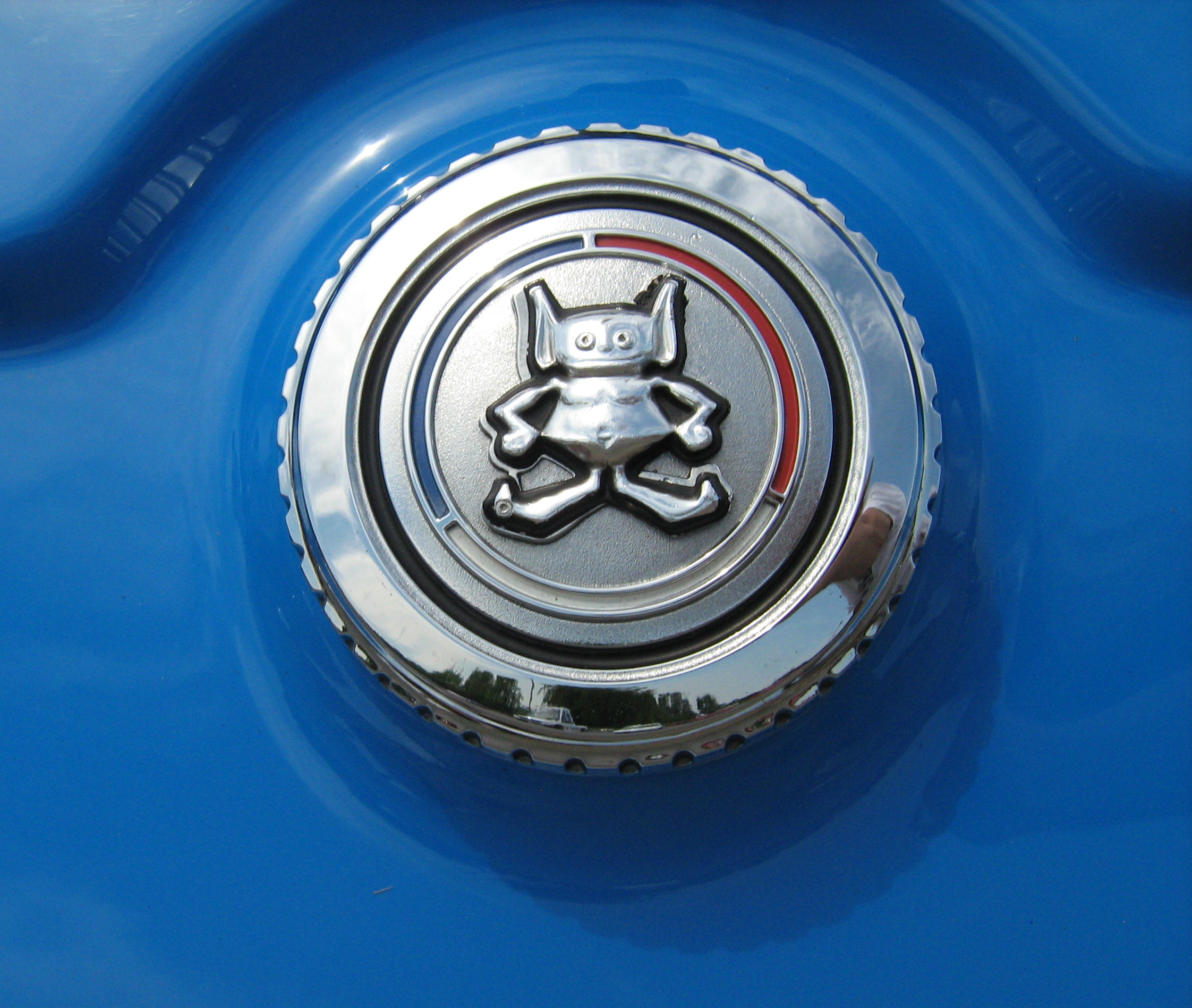 Gas cap (automobile fuel filler cap) on a sub-compact Gremlin built by American Motors Corporation (AMC). It features the Gremlin character logo-emblem.